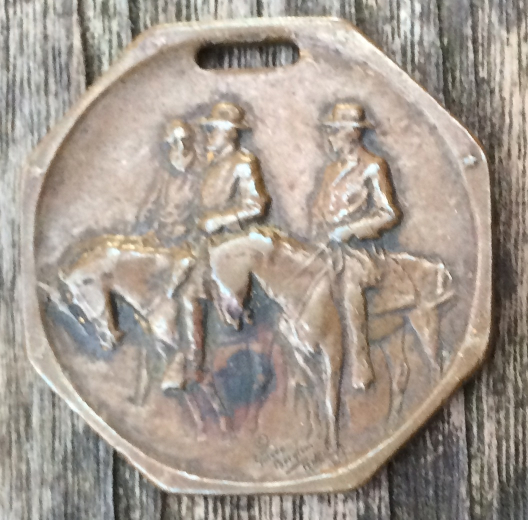 Obverse of a Children's Founders Roll medal from the Stone Mountain Memorial fundraising